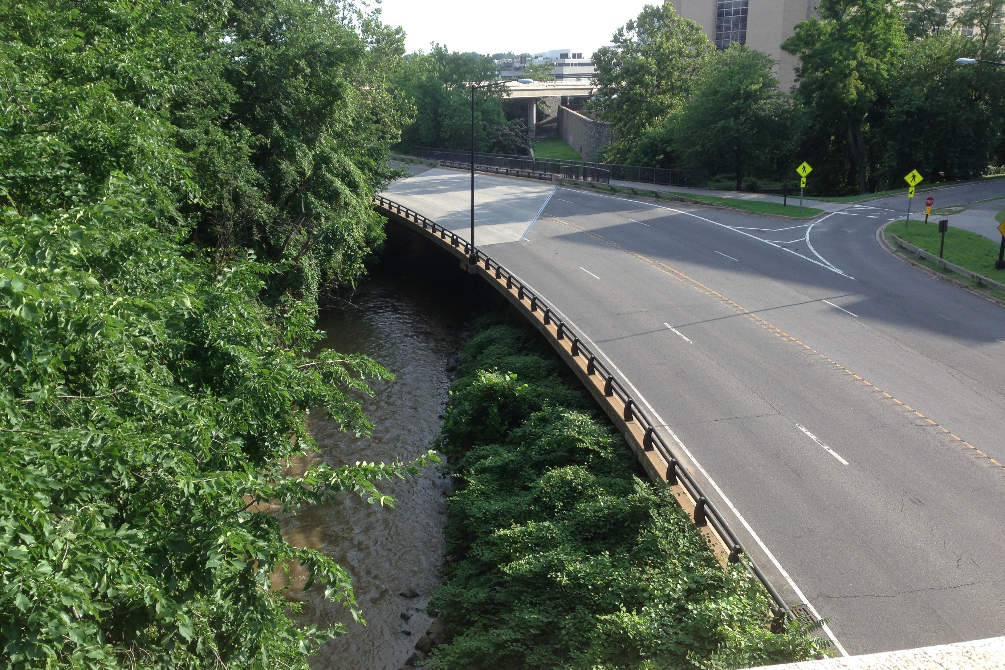 Deck of the L Street Bridge in Washington, D.C. viewed from the Pennsylvania Avenue Bridge in 2015